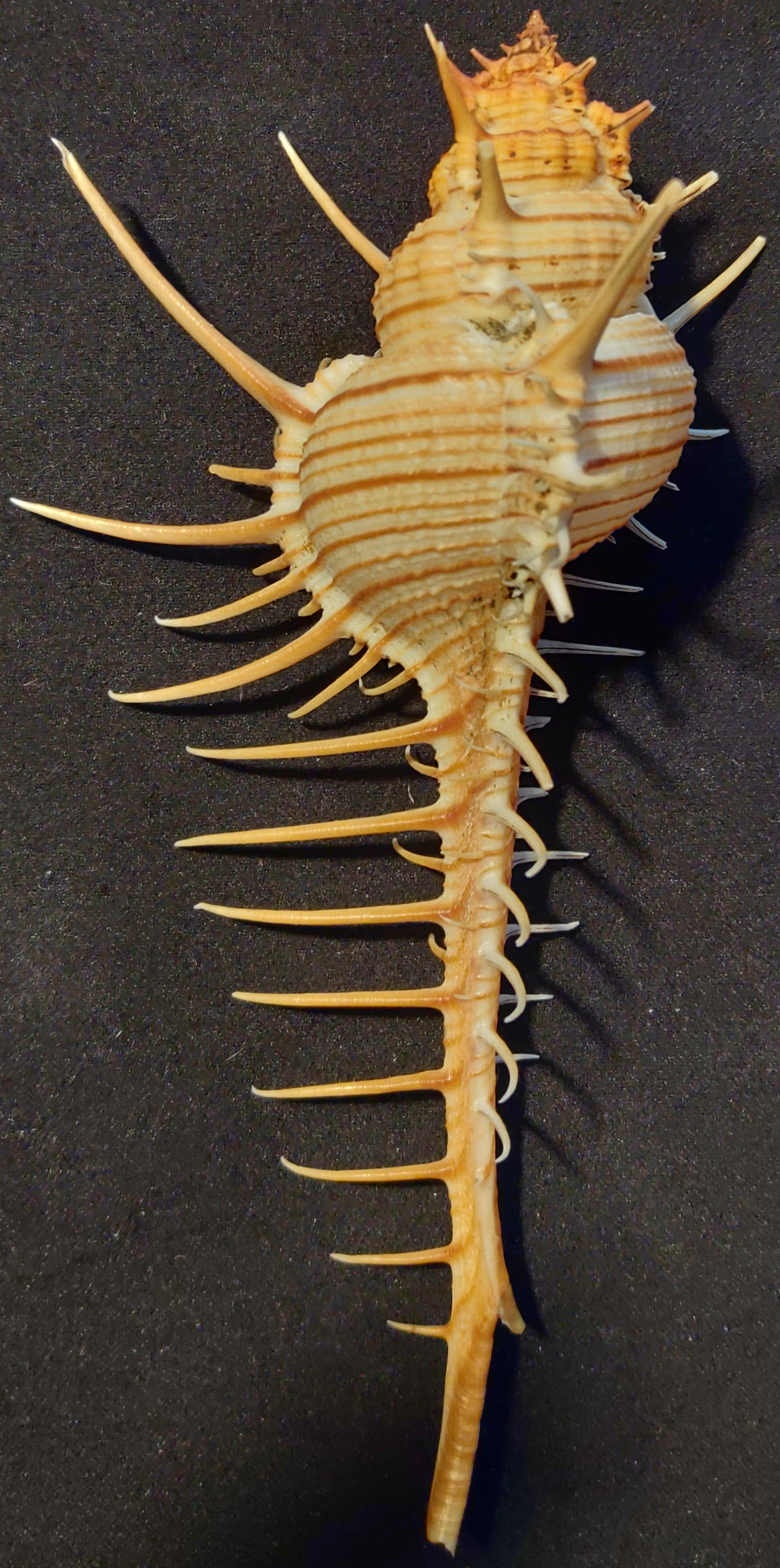 Murex Troscheli Back.